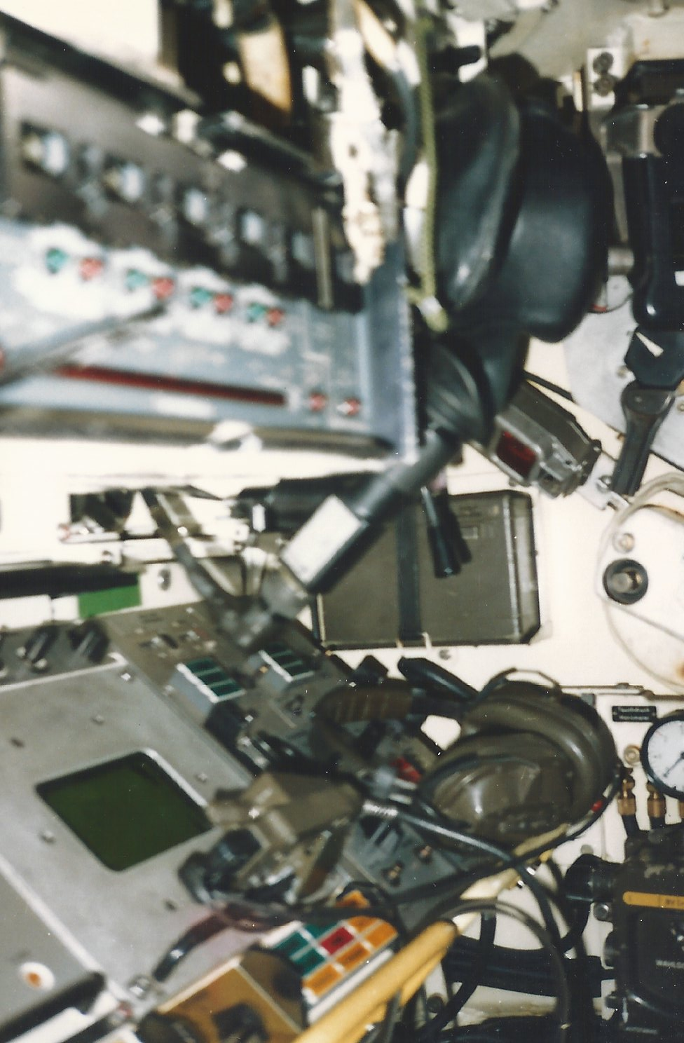 SPAAG Gepard interior - view to the right/ gunners place